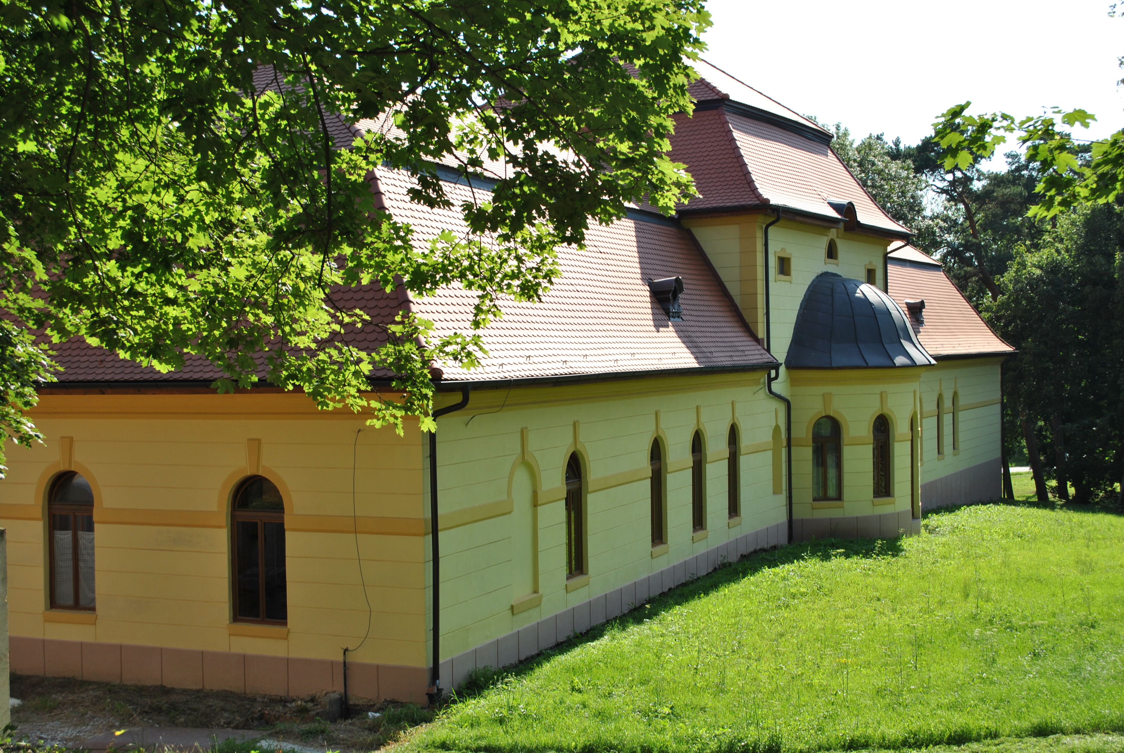 Bardoňovo, manor